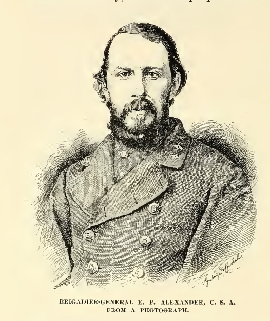 Brig. Gen. E. P. Alexander CSA, American Civil War, Battles Leaders of the Civil War, Vol. III, The Century Company, NY: 1884.